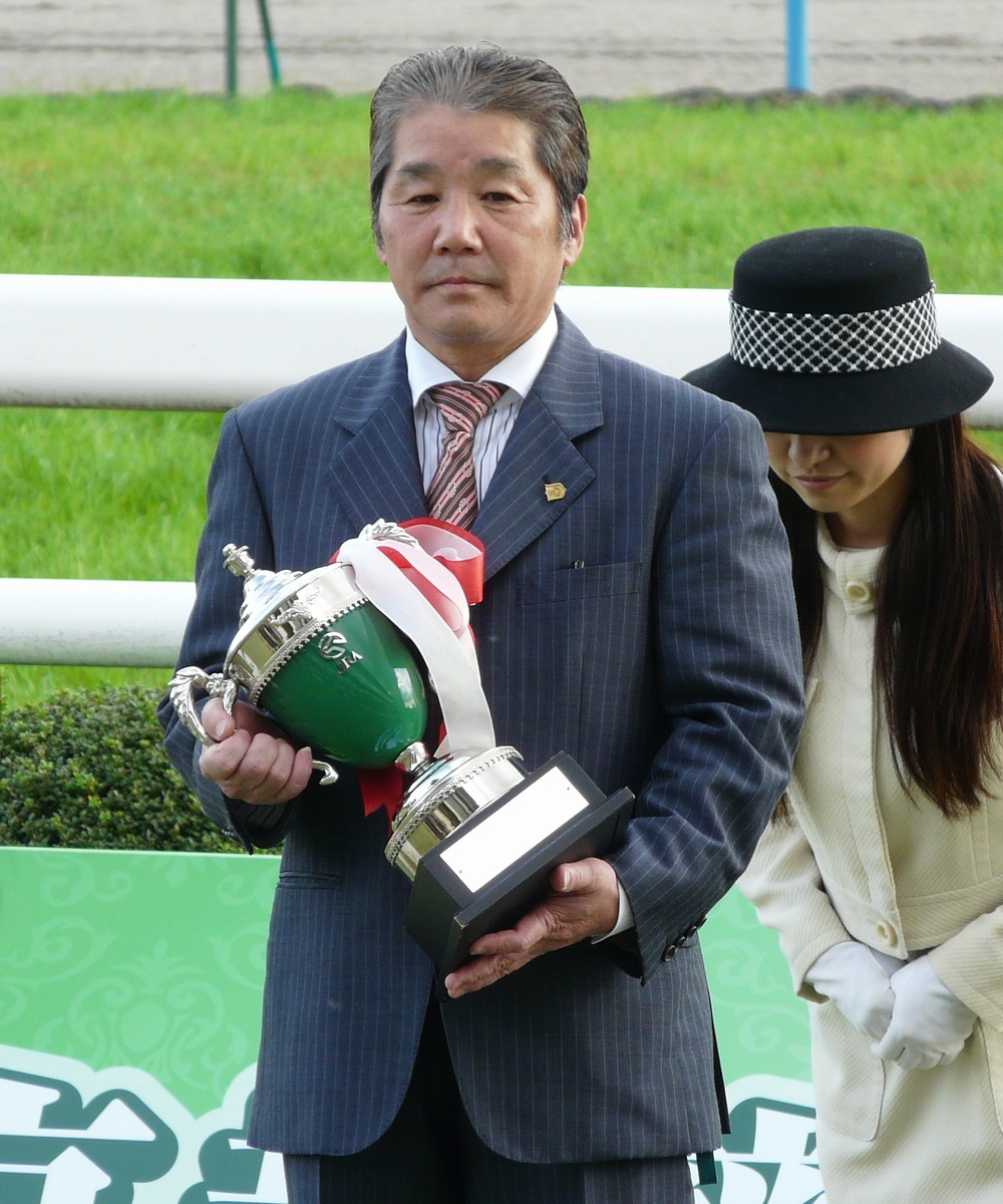 Tadao-Igarashi20111112